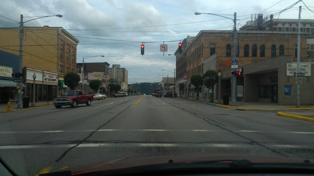 A view of Downtown Beaver Falls, PA.